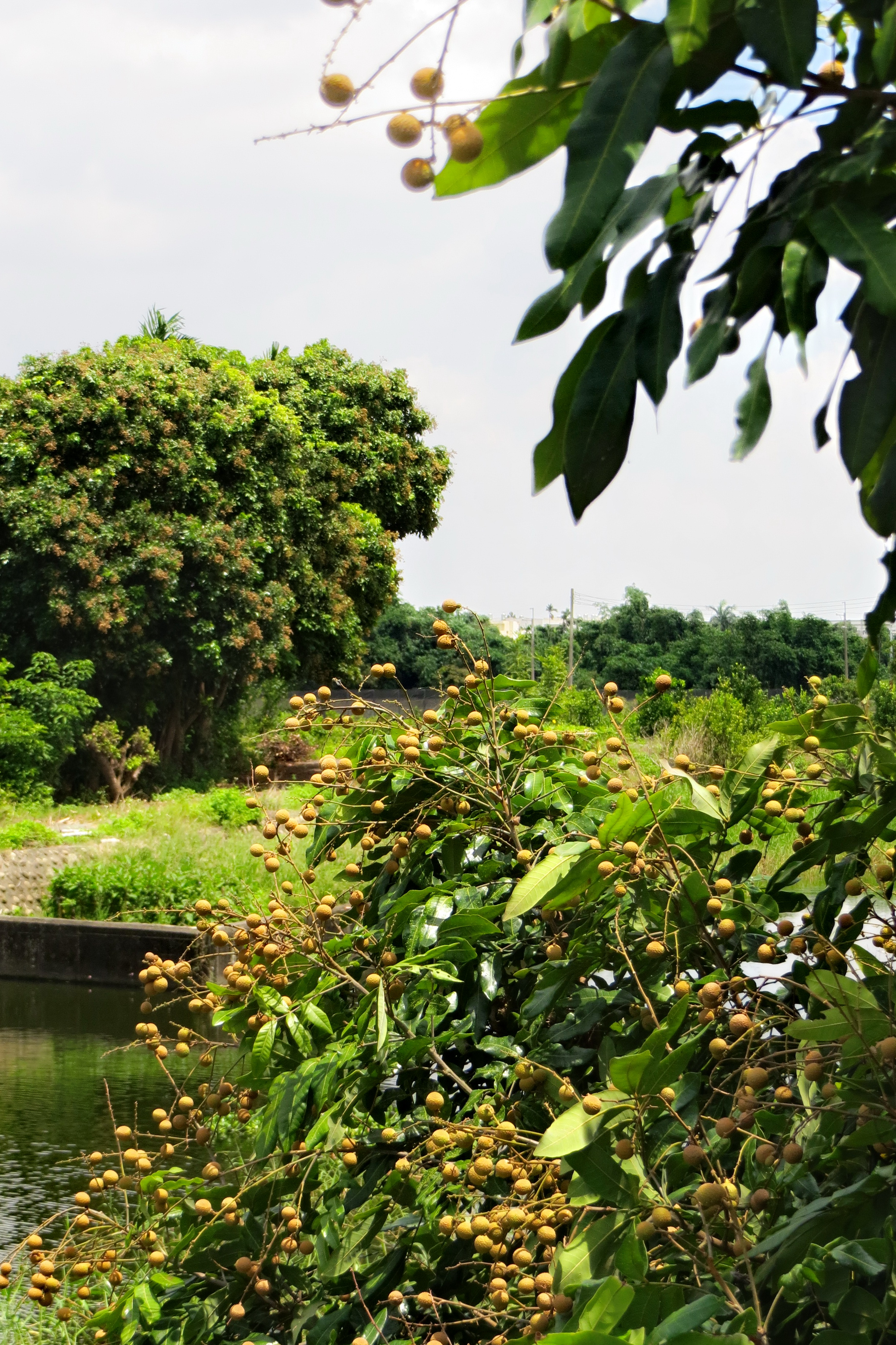 Dimocarpus longan